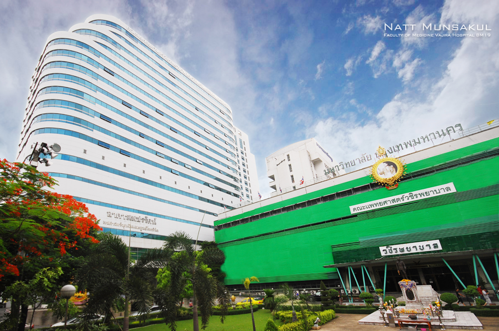 Photo of the Faculty of Medicine Vajira Hospital